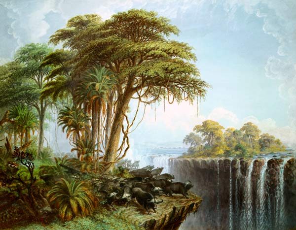 Buffalos Driven to the Edge of the Chasm opposite Garden Island, Victoria Fallslabel QS:Len,"Buffalos Driven to the Edge of the Chasm opposite Garden Island, Victoria Falls" label QS:Lde,"Büffel an den Rand des Abgrunds gegenüber Garden Island an den Viktoriafällen getrieben"